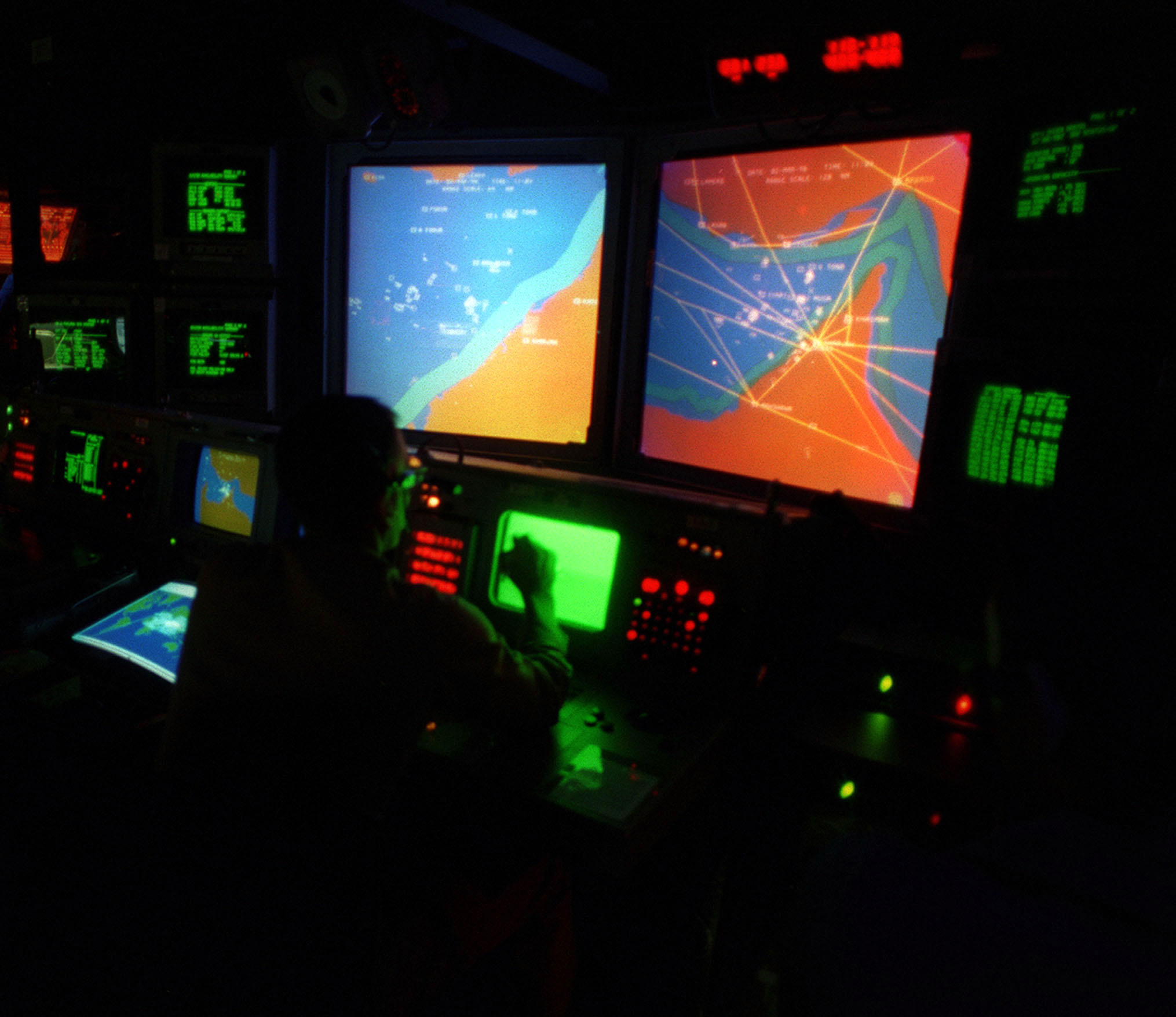 Combat Information Center (CIC) is the nerve center of USS JOHN S. MC CAIN (DDG-56) On watch the Tactical Action Officer (TAO) is responsible for the safe and proper operation of combat systems and reports directly to the commanding officer. The Arleigh Burke class destroyer is deployed in the Arabian Sea in support of the Southwest Asia (SWA) build-up.